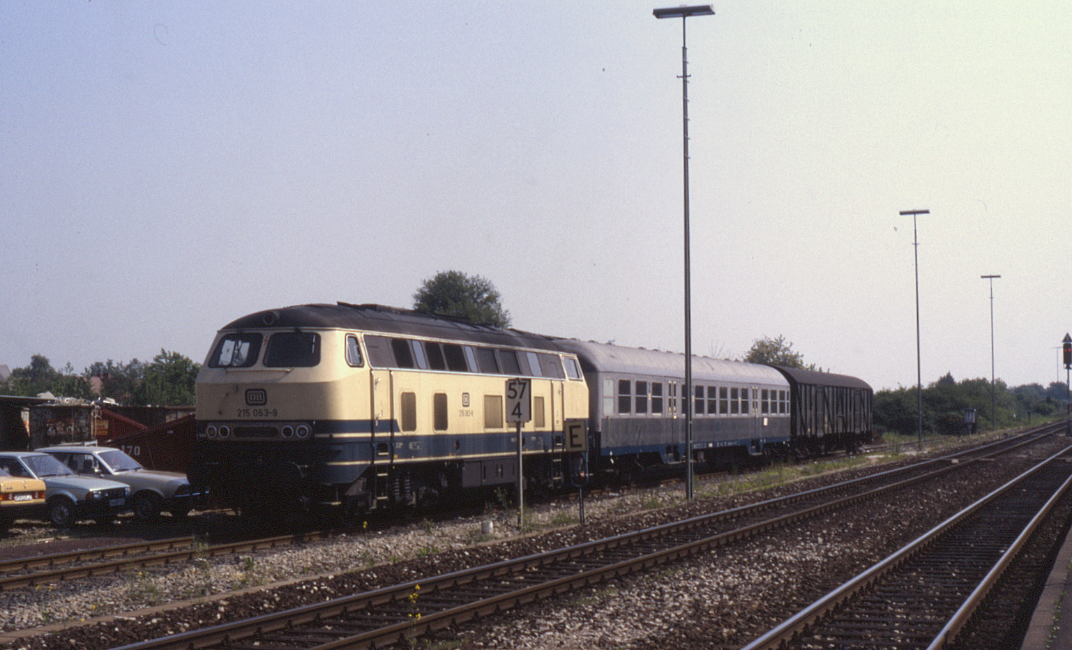 215.063 is seen stabled at Schwäbisch Hall-Hessental on 22 May 1989.